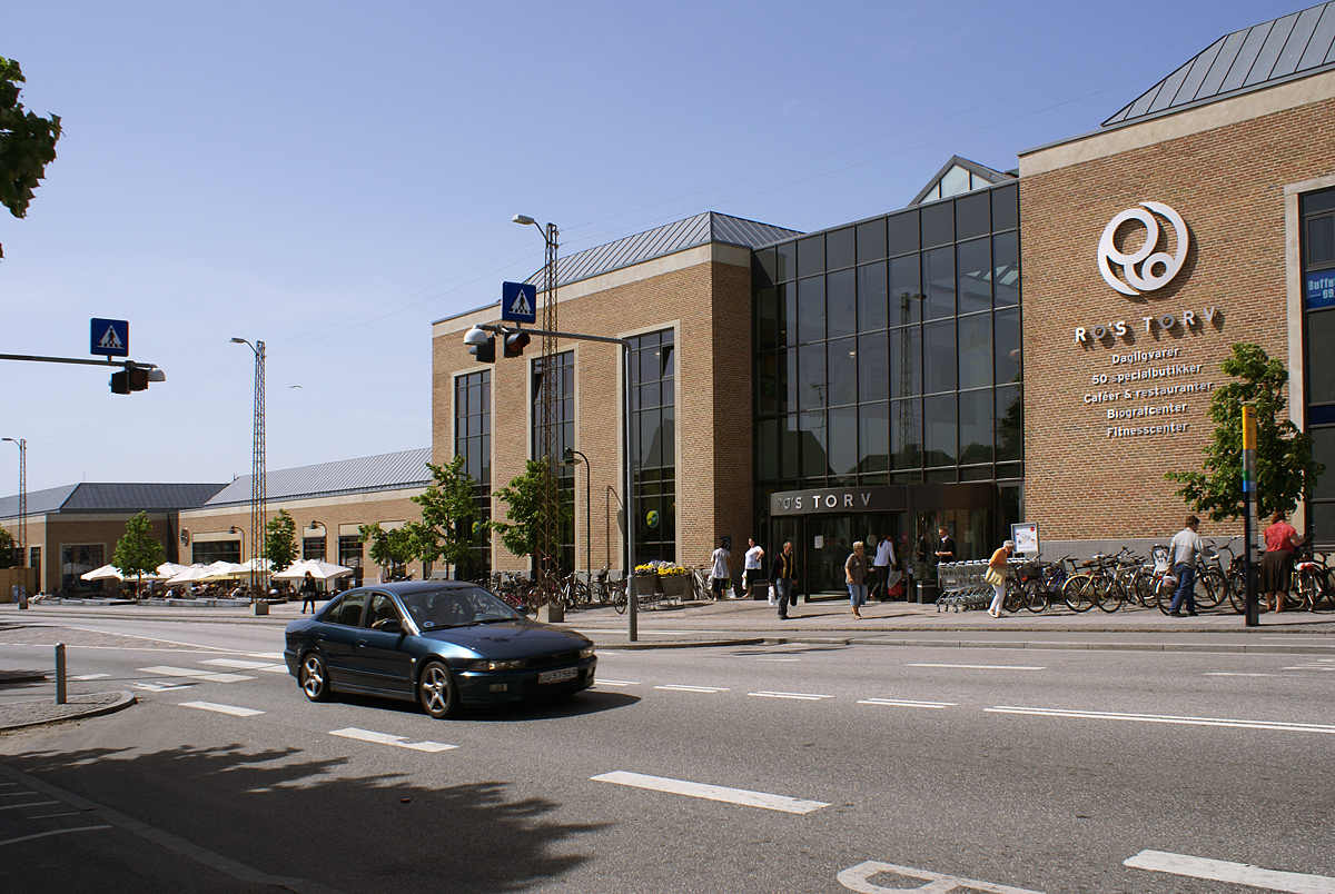 RO's Torv is the newest and largest business center and trading mall in Roskilde, Denmark